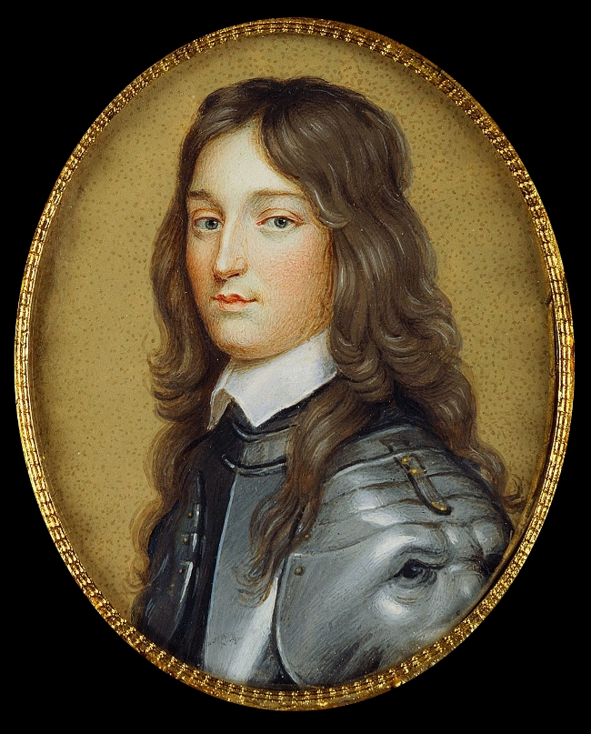 Frederick Henry of the Palatine (1615-1629)